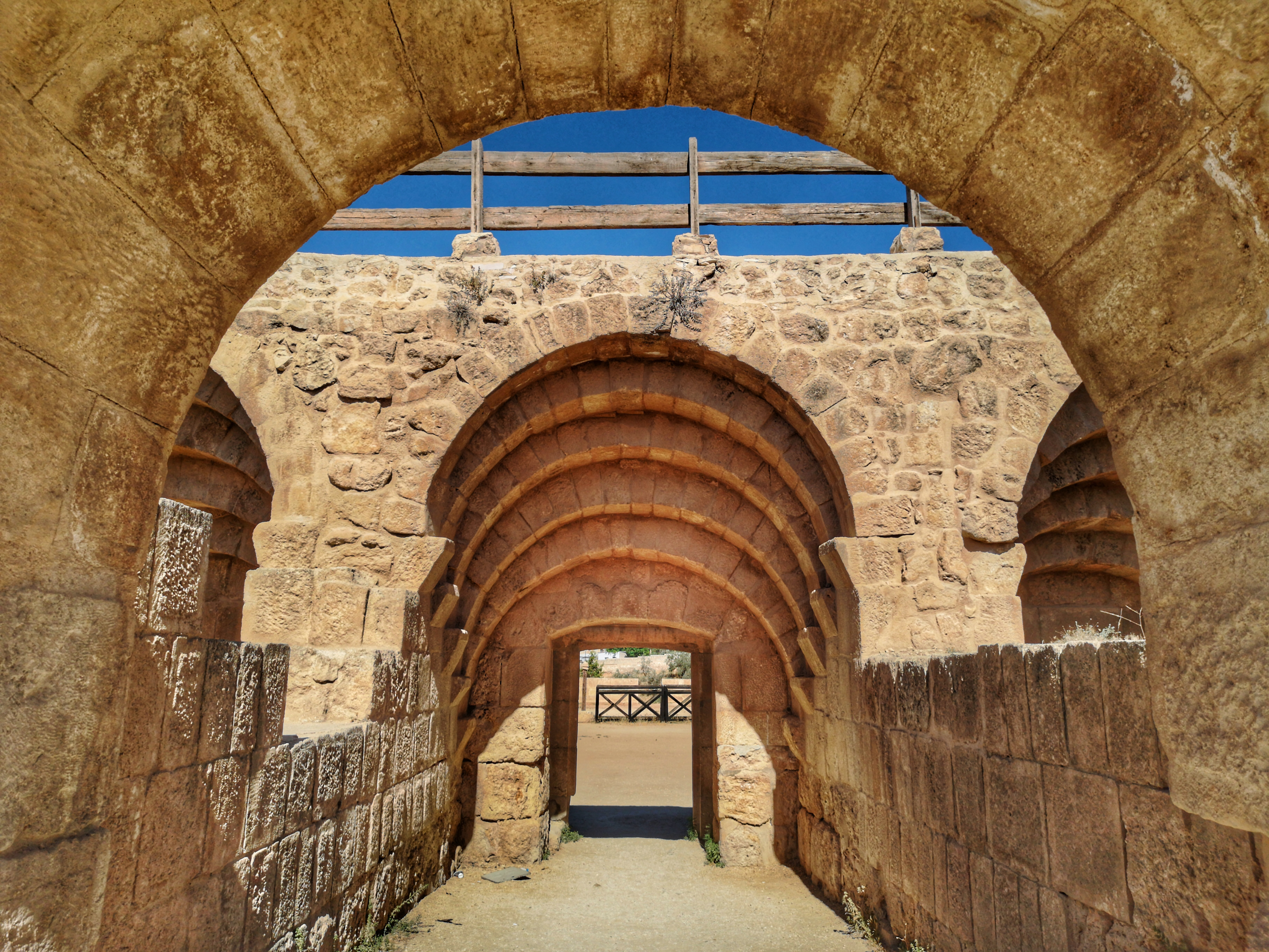 Geometric forms at the entrance the Roman Circus aka Hippodrome in Jerash